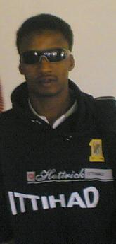 Mohammed Noor is one of the greatest players of football (soccer) in Saudi Arabia.